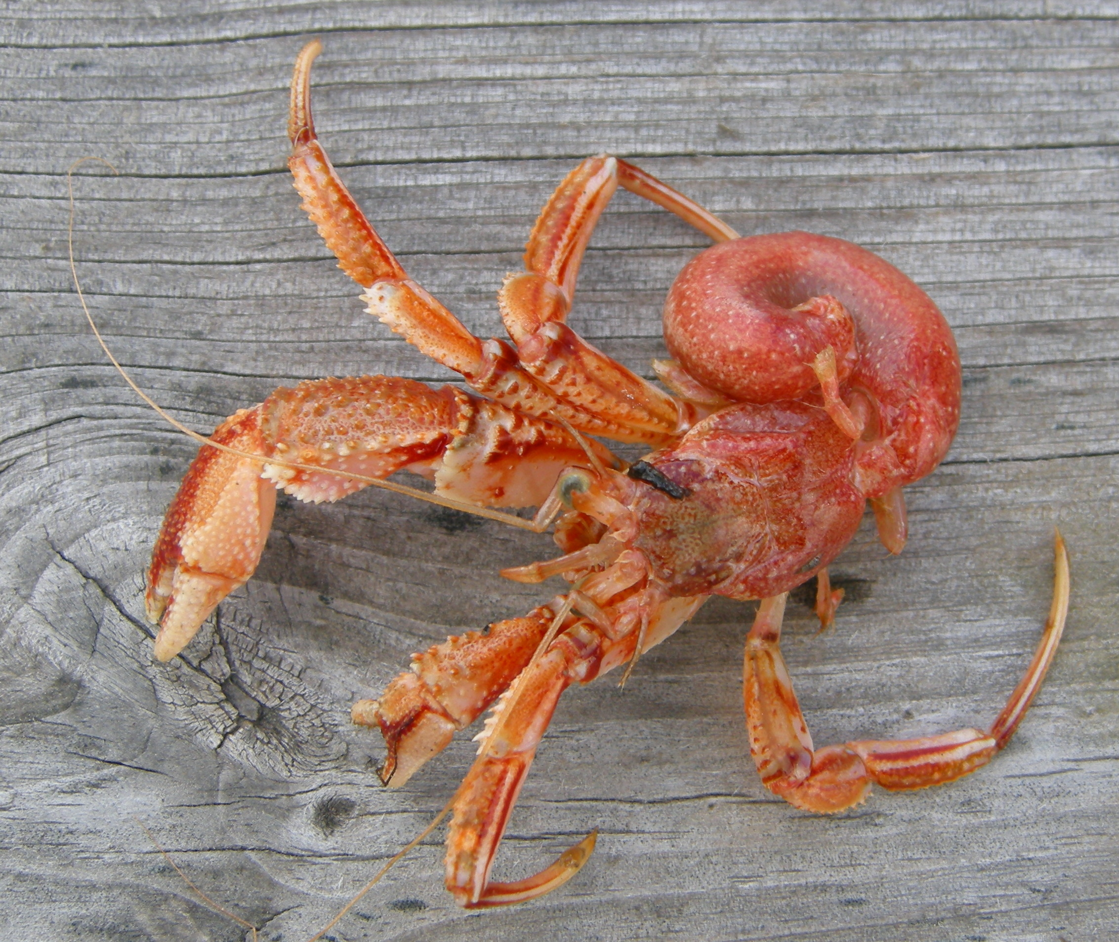 Paguridae (Pagurus bernhardus) with no house - Stavern, Norway